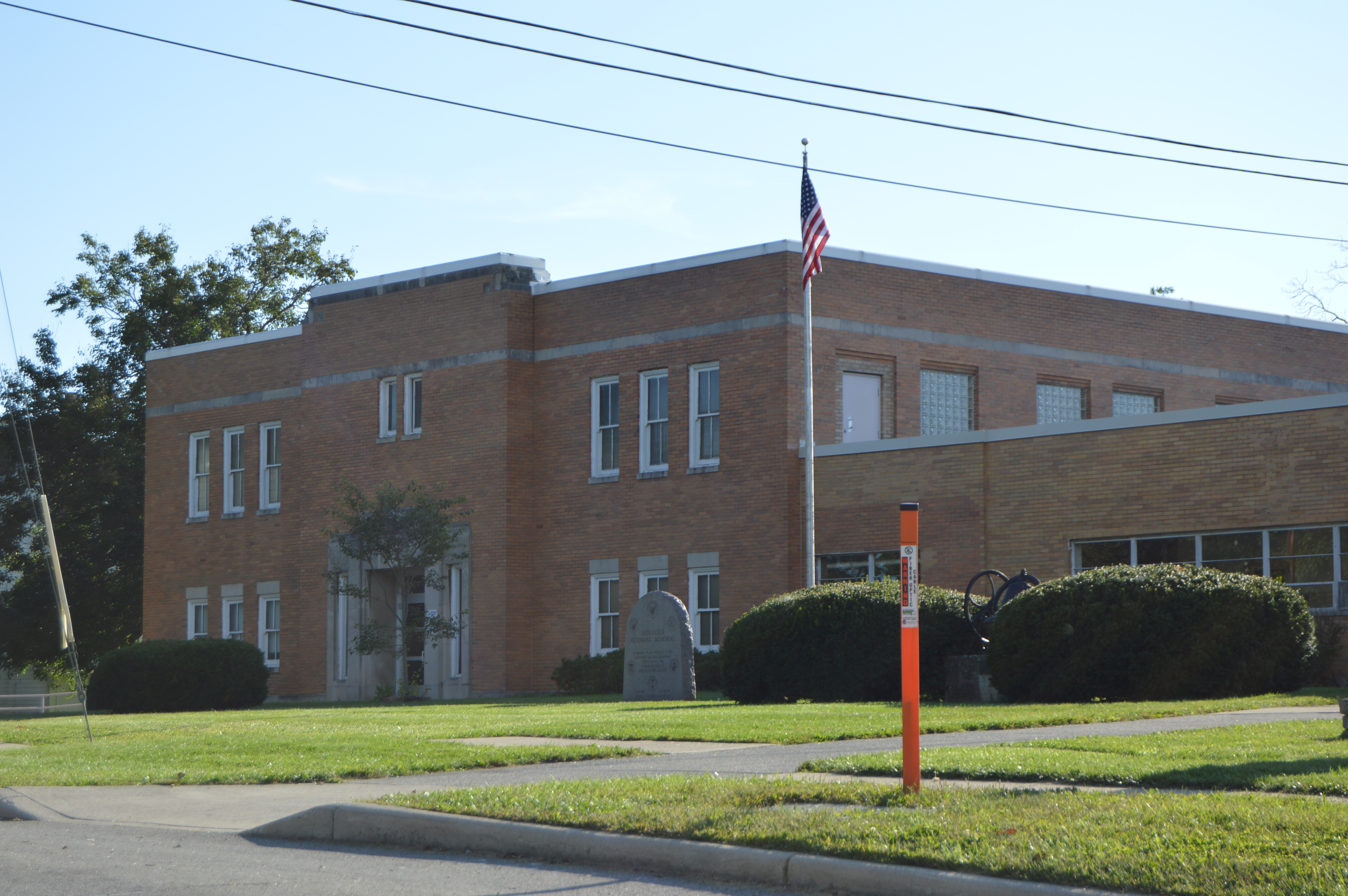 Front of the Buckeye Valley West Elementary School, located at 61 N. Third Street in Ostrander, Ohio, United States.